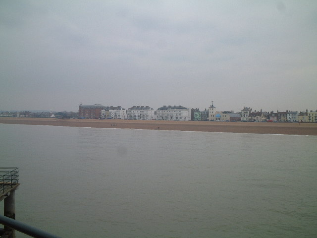 Deal Kent. Deal seafront picture taken from the pier